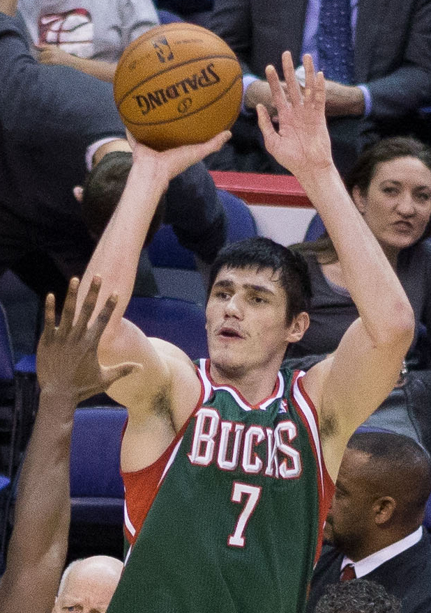 Ersan İlyasova